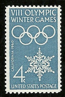 1960 Winter Olympics on a US postage stamp